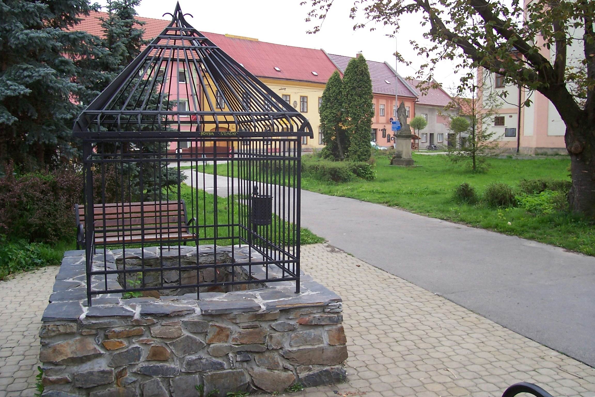 Hranice in Přerov District, part Drahotuše Czech Republic. Square.